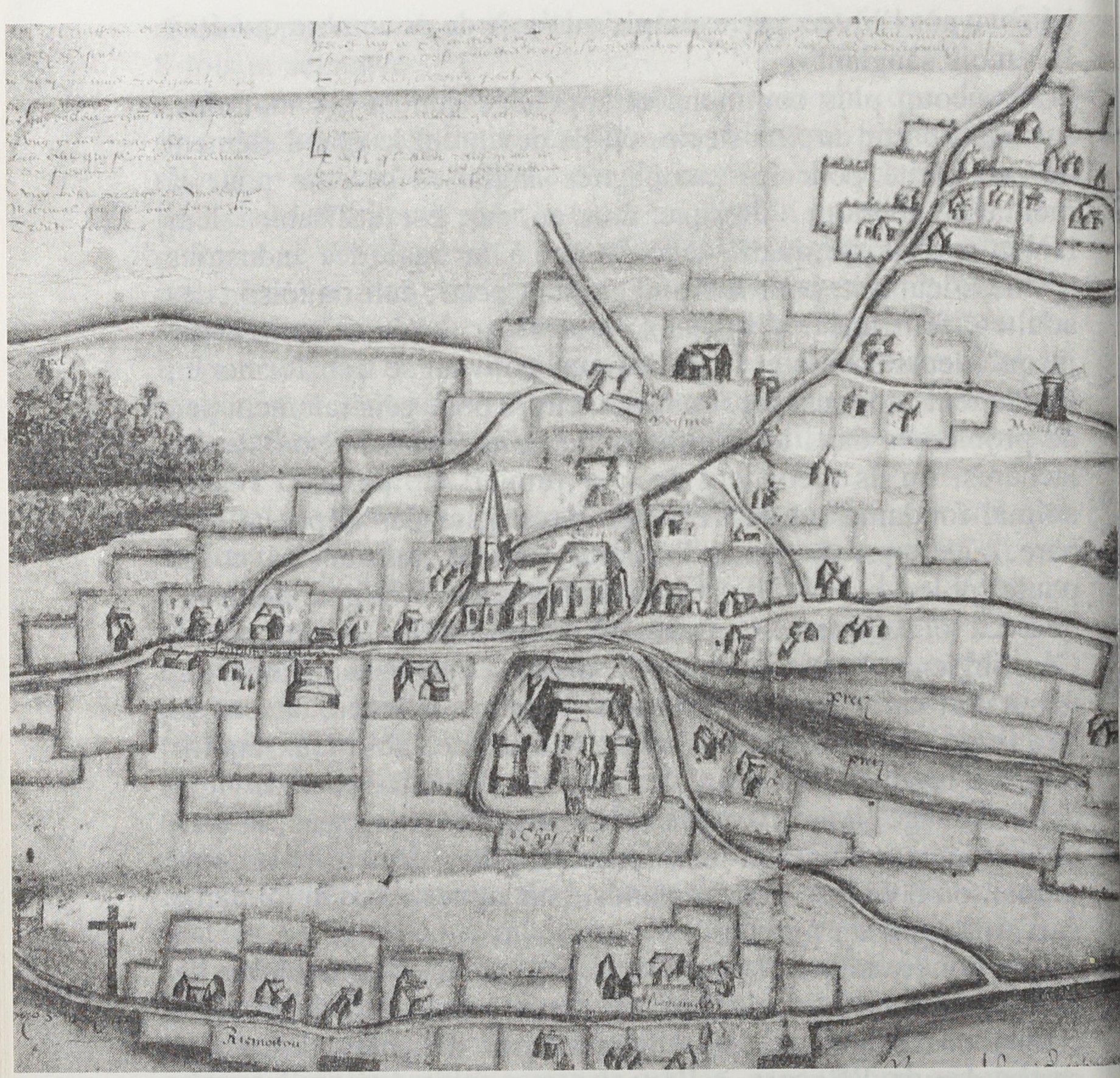 Map of the village of Wismes (Pas de Calais, France), created at the end of the middle ages. The creation date is not clear (14th, 15th, 16th century?). It is taken from the personal archives of Armel de Wismes.